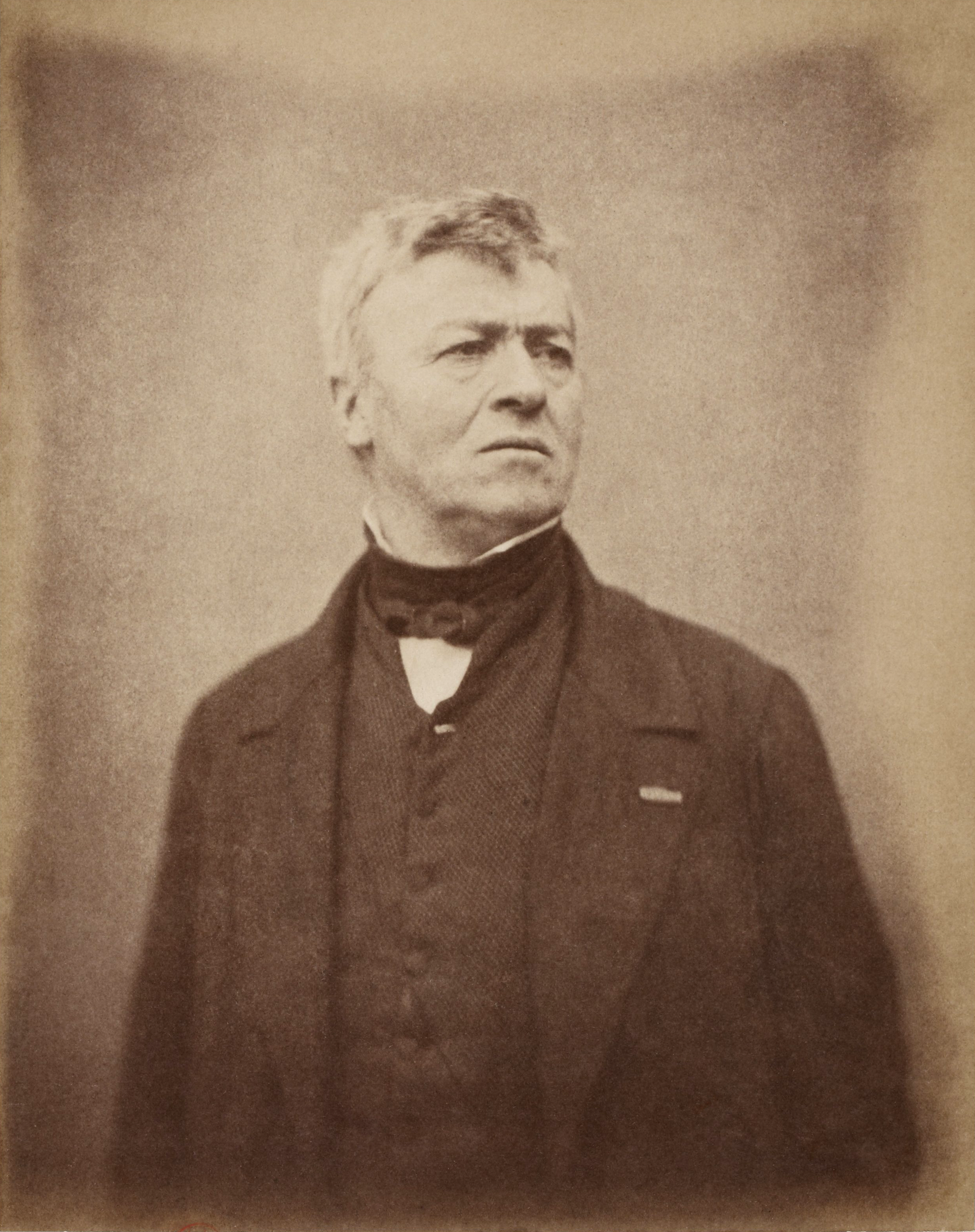 Jean-Baptiste-Camille Corot